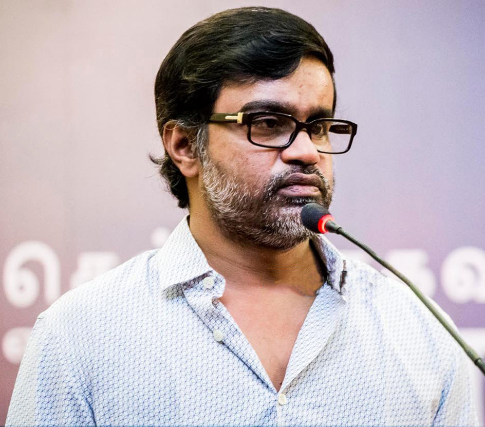 Selvaraghavan at Maalai Nerathu Mayakkam Press Meet